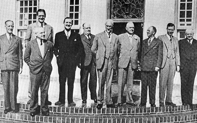 Last UP Cabinet in 1948 (Jan Smuts PM)